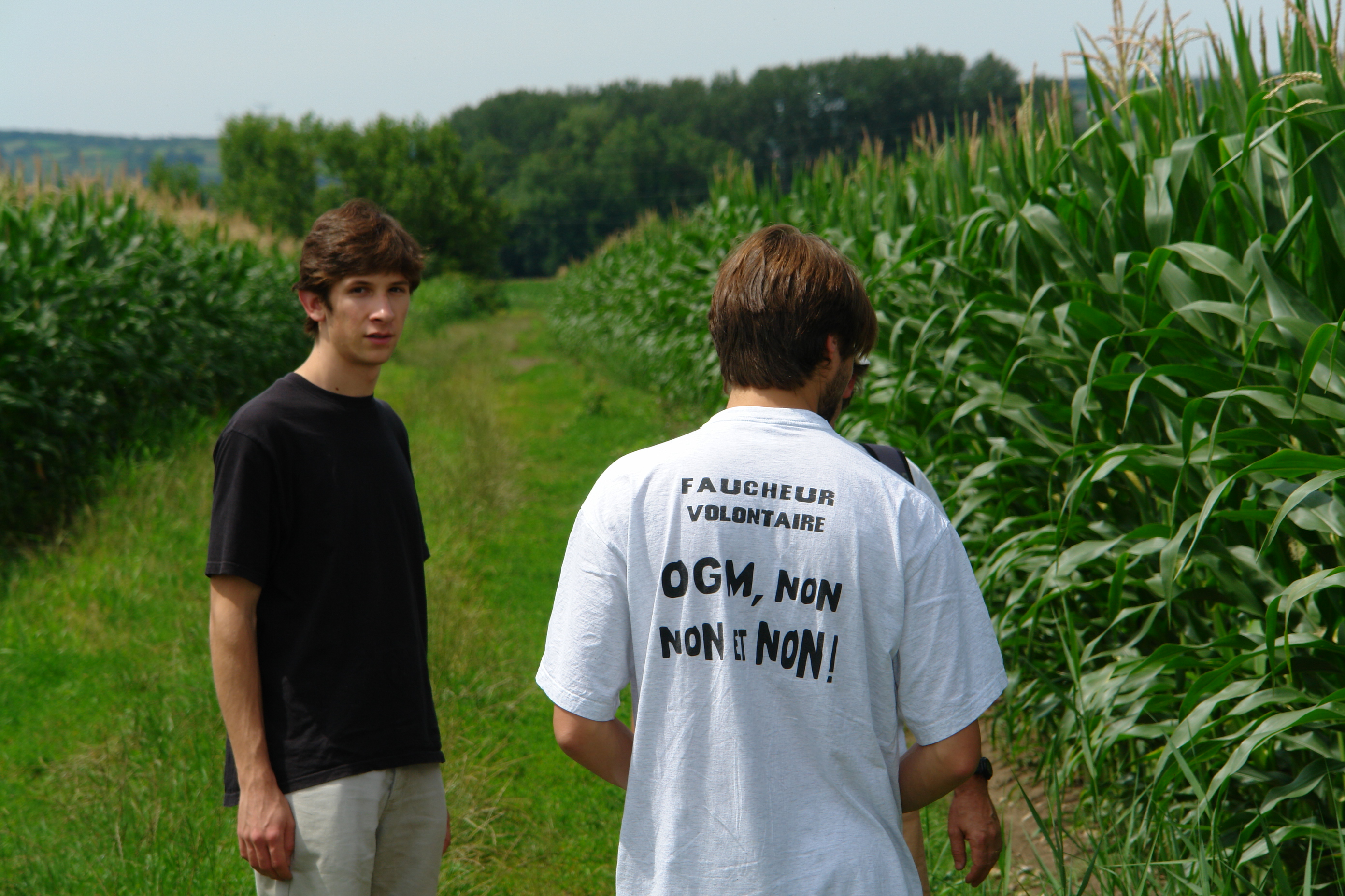 GMO maize test, Bourgouin-Jallieu, Isère, France.